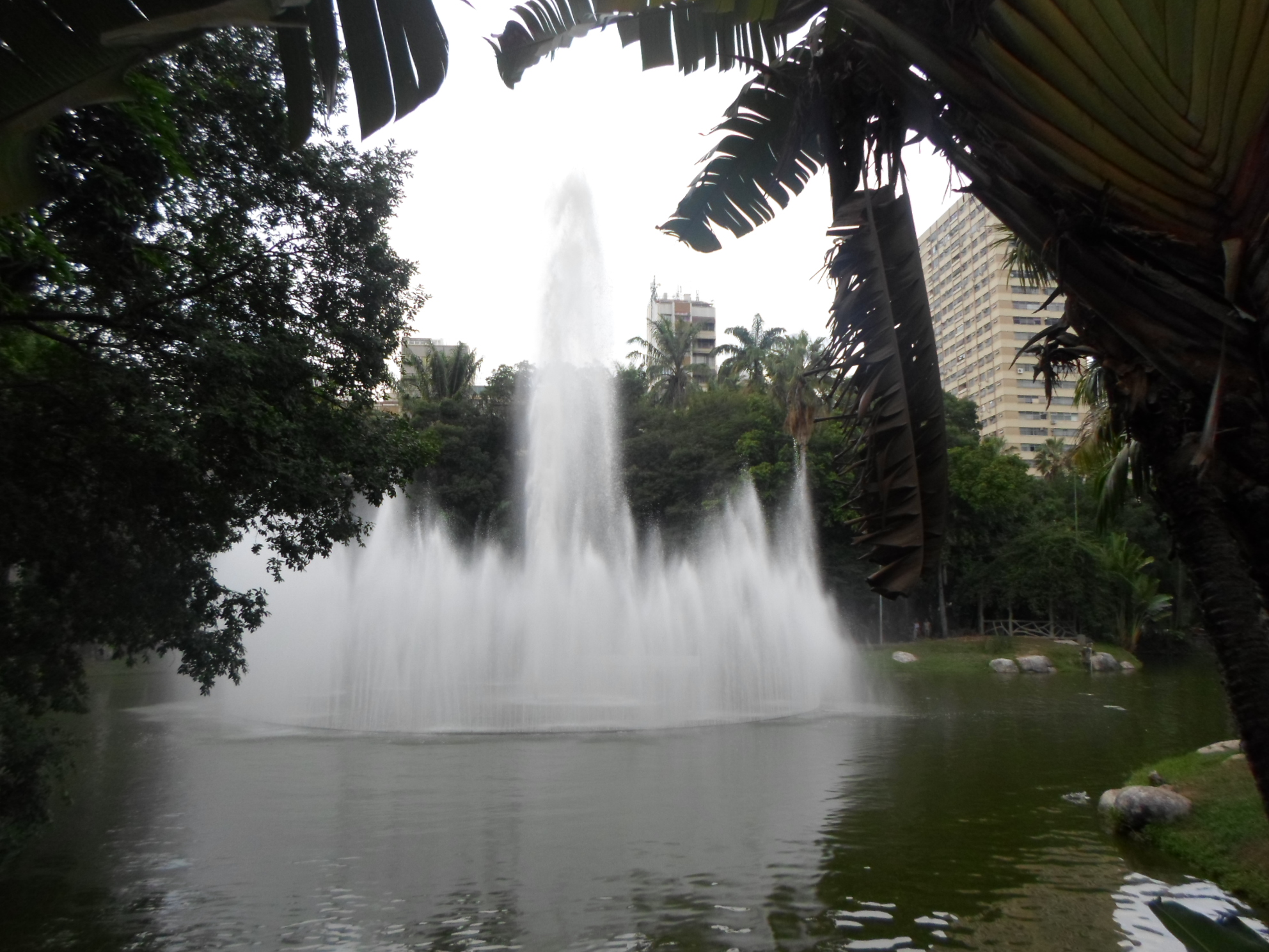 Parque Prefeito Ferraz.